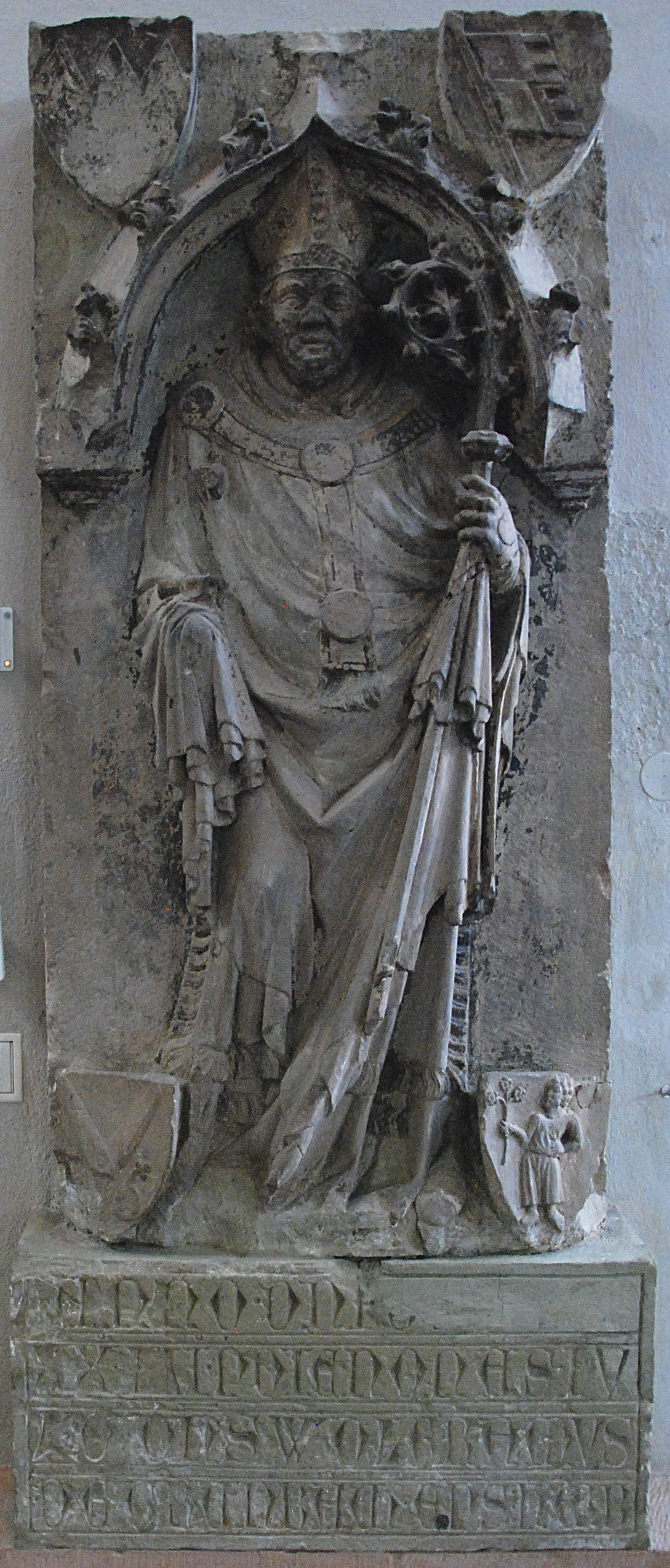 Wolfram von Grumbach grave Wurzburg Dom